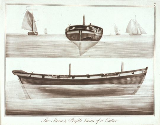 The Stern & Profile Views of a Cutter; mezzotint